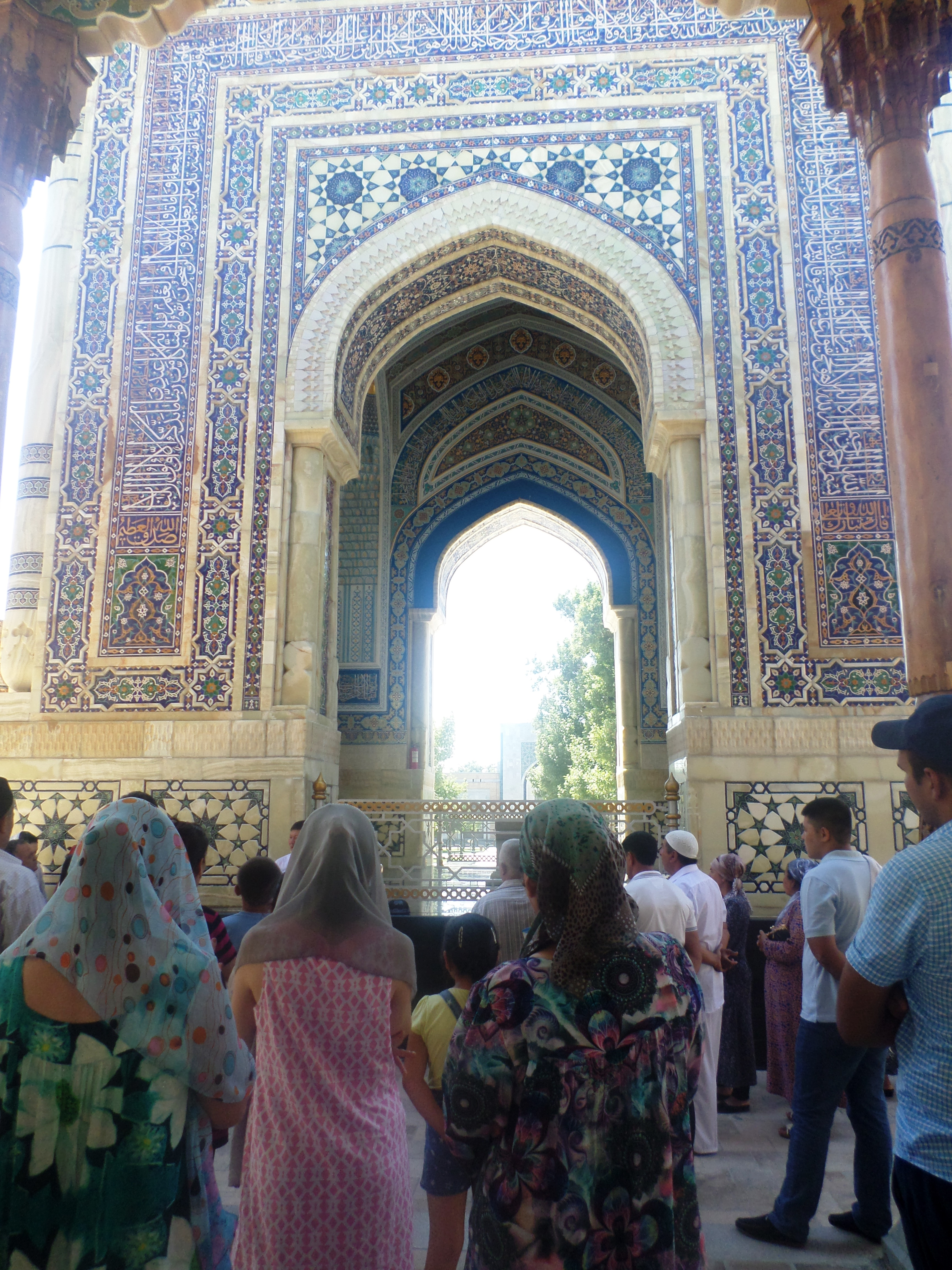 Al Bukhari Memorial, Samarkand Hartang village. Construction period 1997-1998